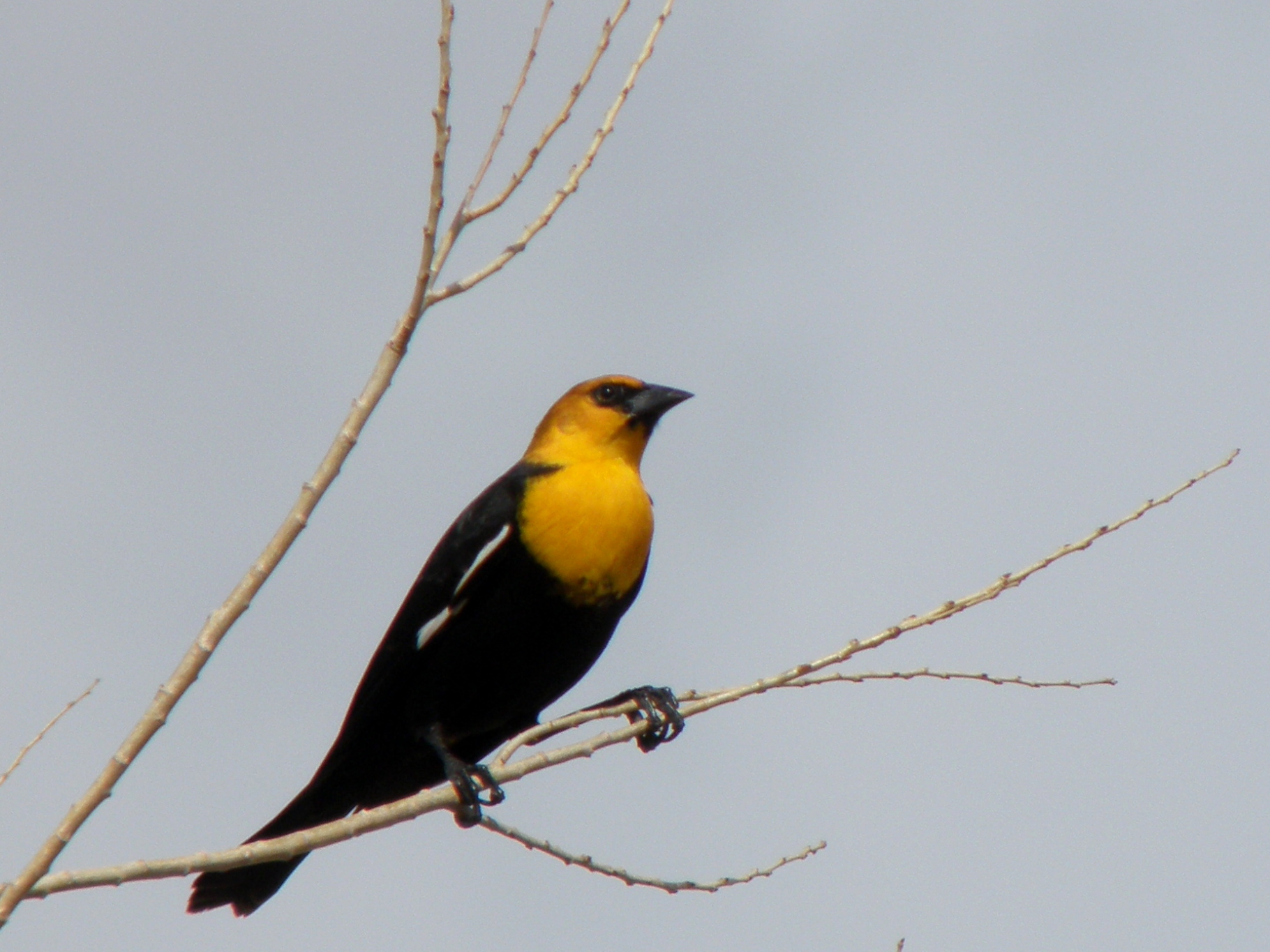 Yellow-headed Blackbirds in USA.